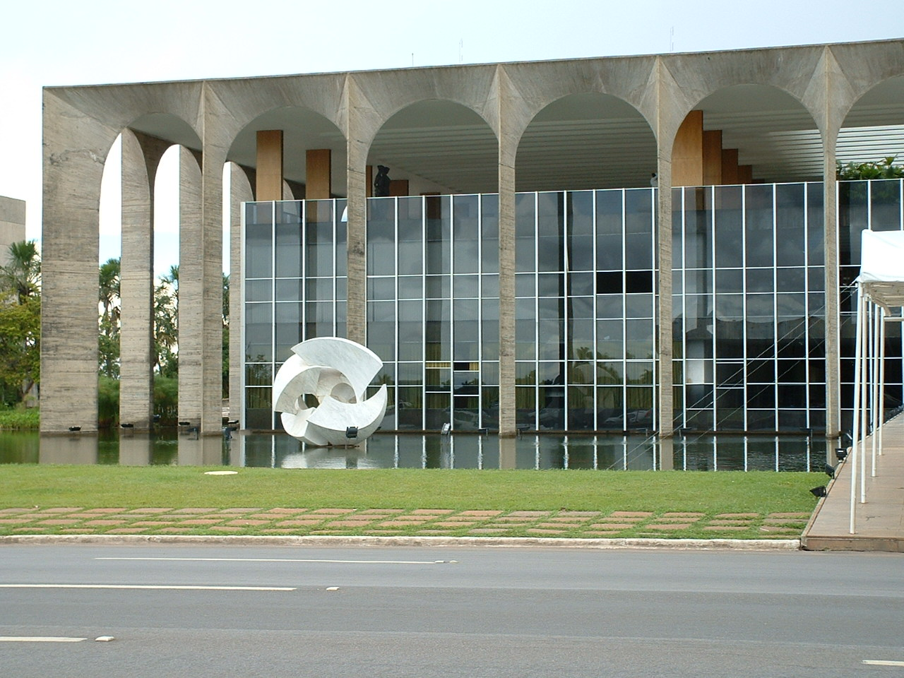 Palácio dos Arcos or Itamaraty, Ministry of External Relations, Brasília, Brazil.